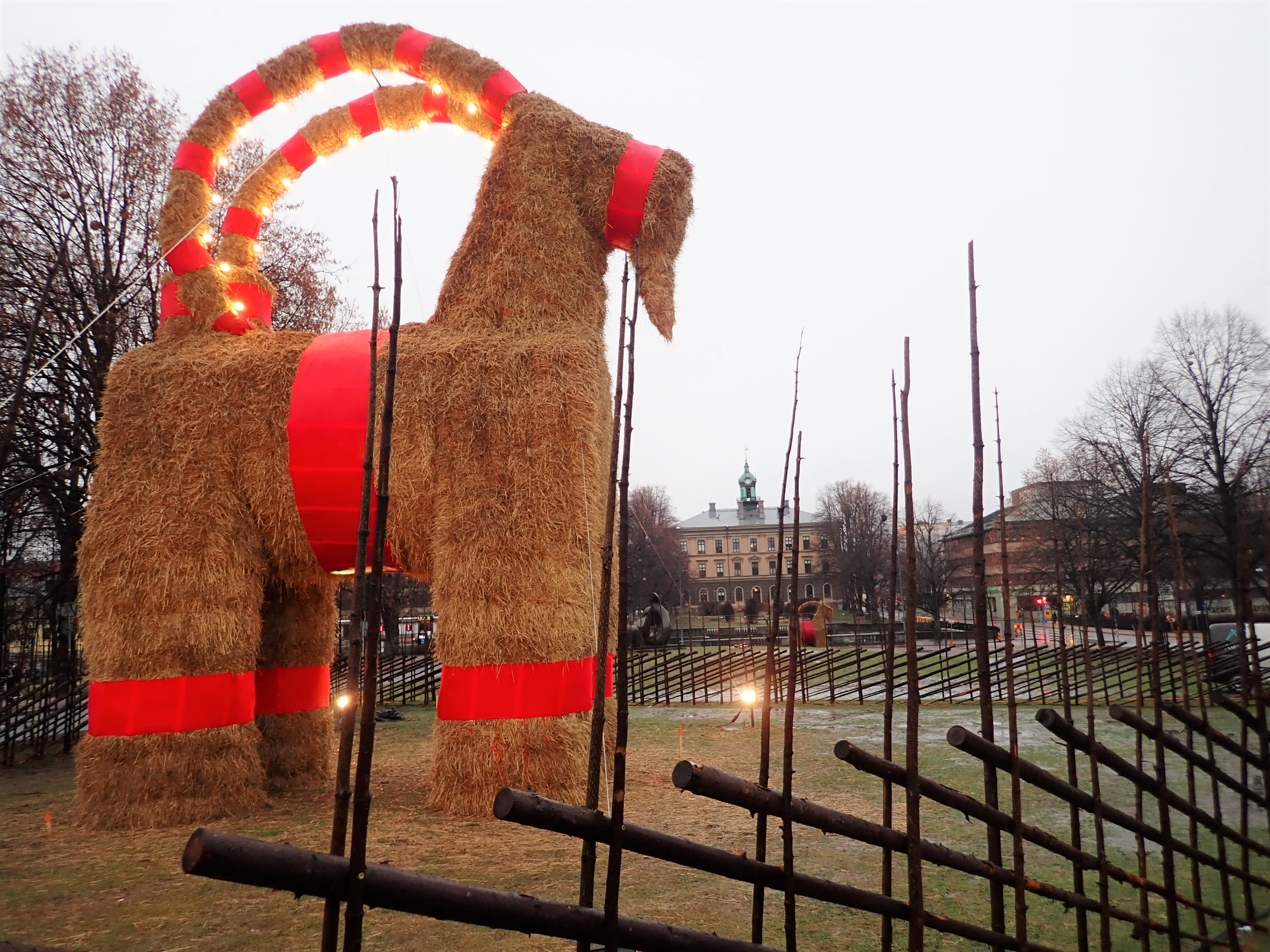 Gävle goat 2019 - this is the first time in history that the goat has survived three consequtive Xmas holiday seasons. The building in the background is Gävle Town Hall. The goat 2019 has been turned 180 degrees for a better view while approaching it - and also to make it easier to take selfies wit the goat.